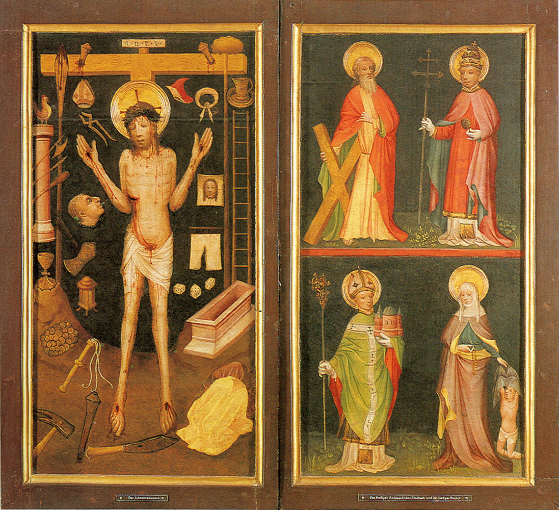 Man of Sorrow with Arma Christi and Saints Andrew, Urban, Heribert of Deutz and Elisabeth of Hungary - closed Altar of Holy Kinship